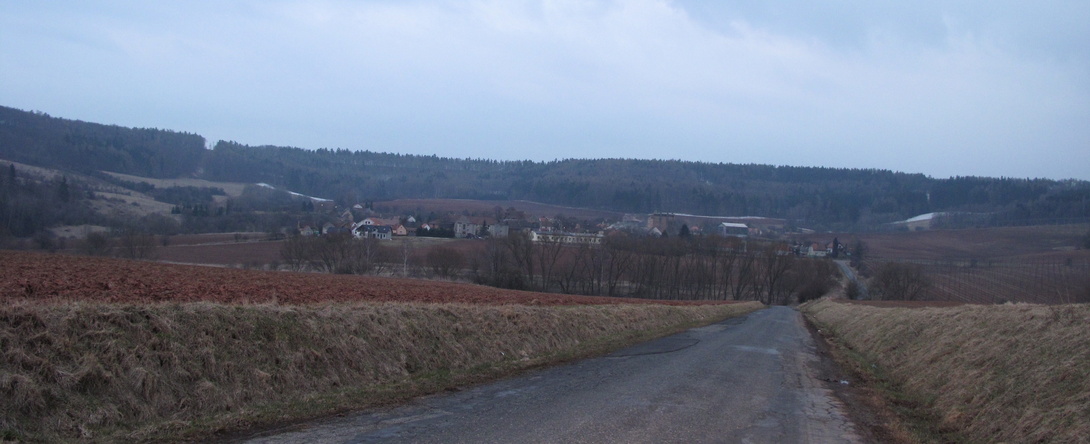 View from the north to Lhota pod Džbánem village, Rakovník District, Czech Republic.